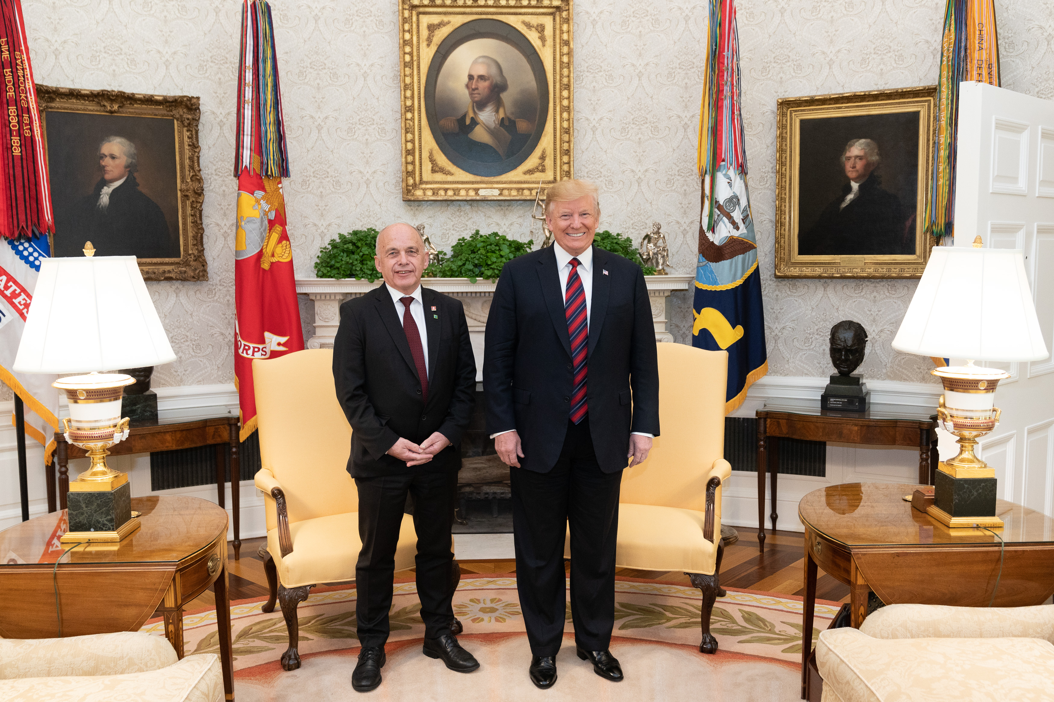 President Donald J. Trump welcomes President Ueli Maurer of the Swiss Confederation Thursday, May 16, 2019, to the Oval Office of the White House. (Official White House Photo by Shealah Craighead)